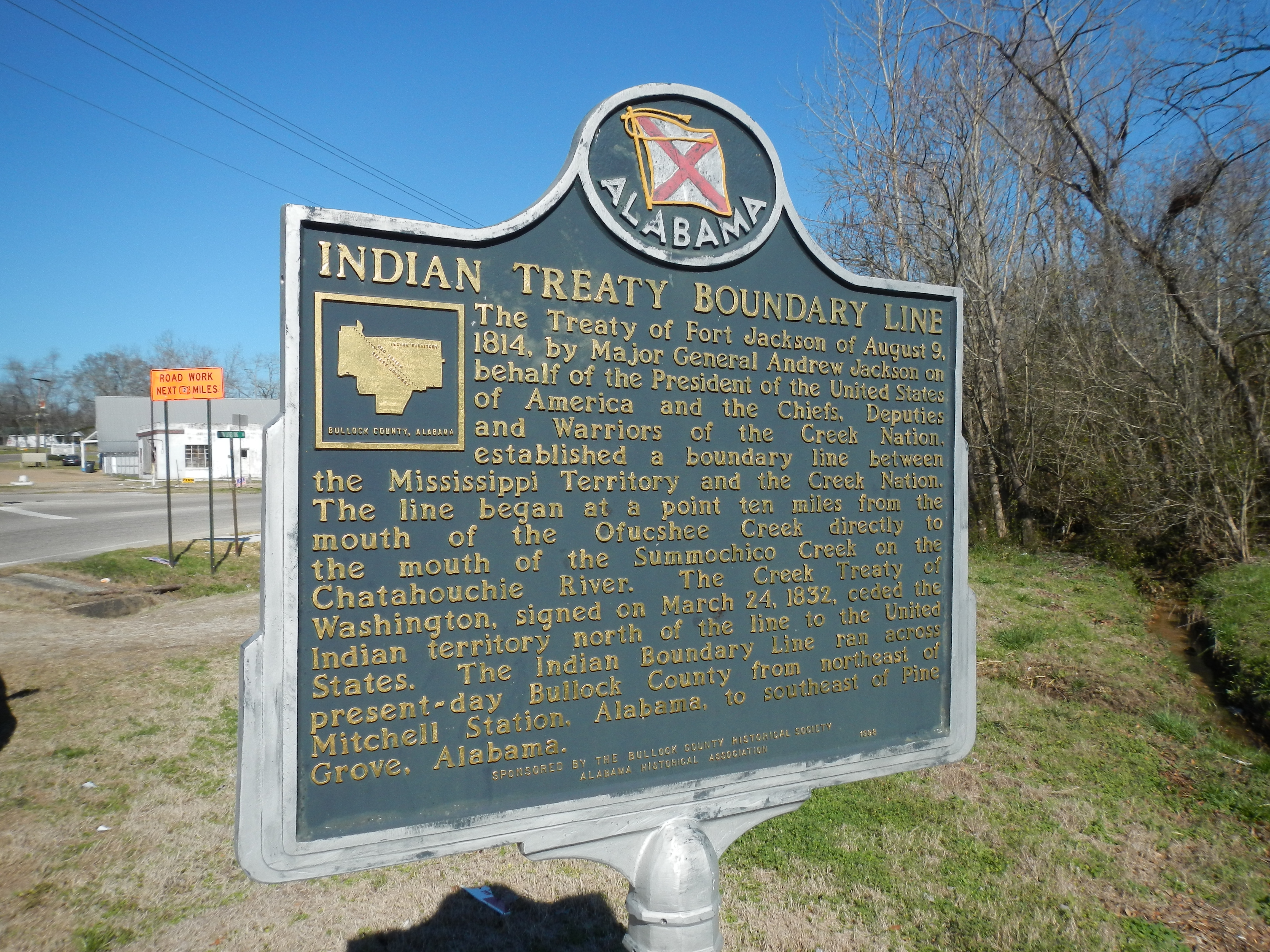 This is a photograph of the Treaty of Fort Jackson Historical Marker denoting the Indian treaty boundary line in Bullock County, Alabama.